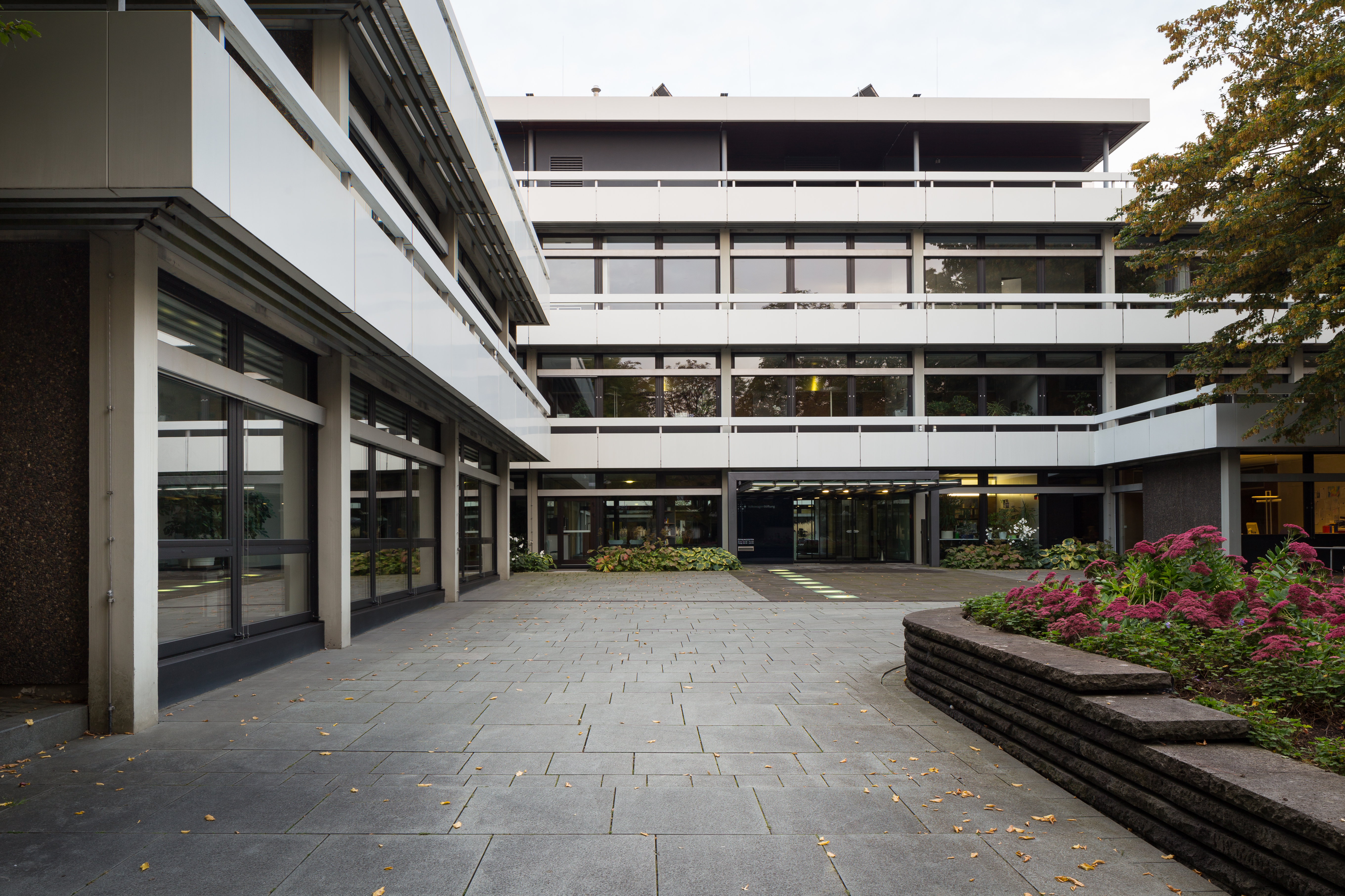 Office building of VolkswagenStiftung research foundation located at Wiehbergstrasse and Kastanienalle (pictured) in Doehren quarter of Hannover, Germany.